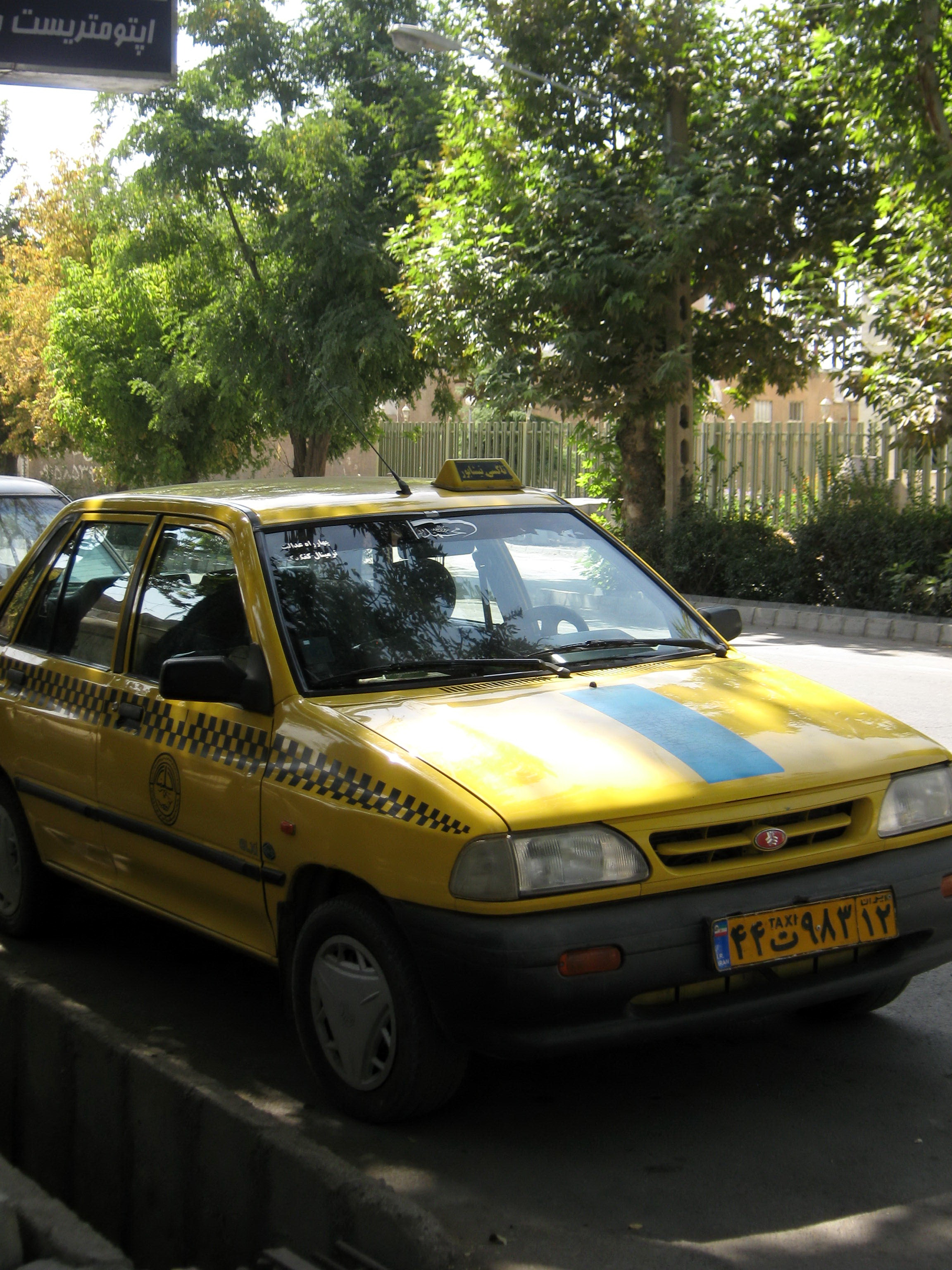 17 Shahrivar street photography - Nishapur